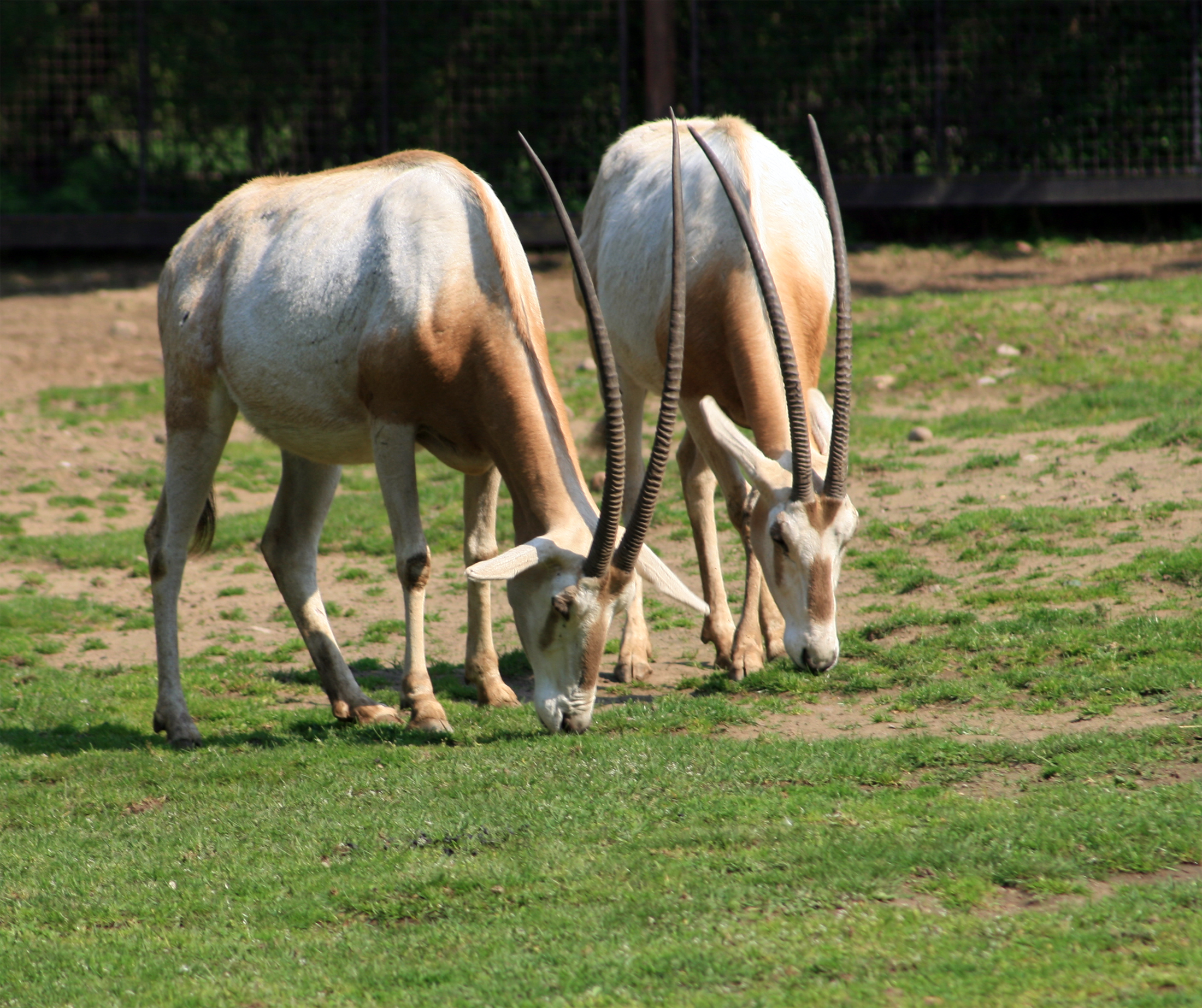 Scimitar Oryx in ZOO Praha, Czech Republic